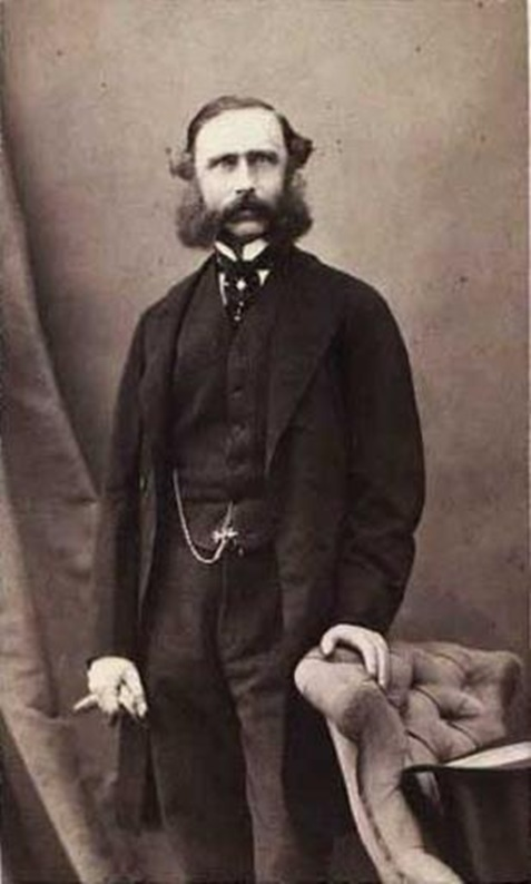 Frederick William (II) George Adolf, Landgrave af Hessen-Kassel(-Rumpenheim) (1820-1884), Danish, Hessian, and Prussian general